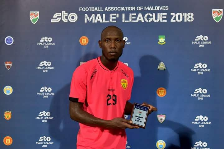 man of the match